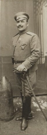 Ivan Kirpikov. Album of the First World War on the 20th Invantry Regiment, Bulgaria. It was given by the commander of the regiment Ivan Kirpikov to Prince Cyril Preslavski, the head of the regiment.